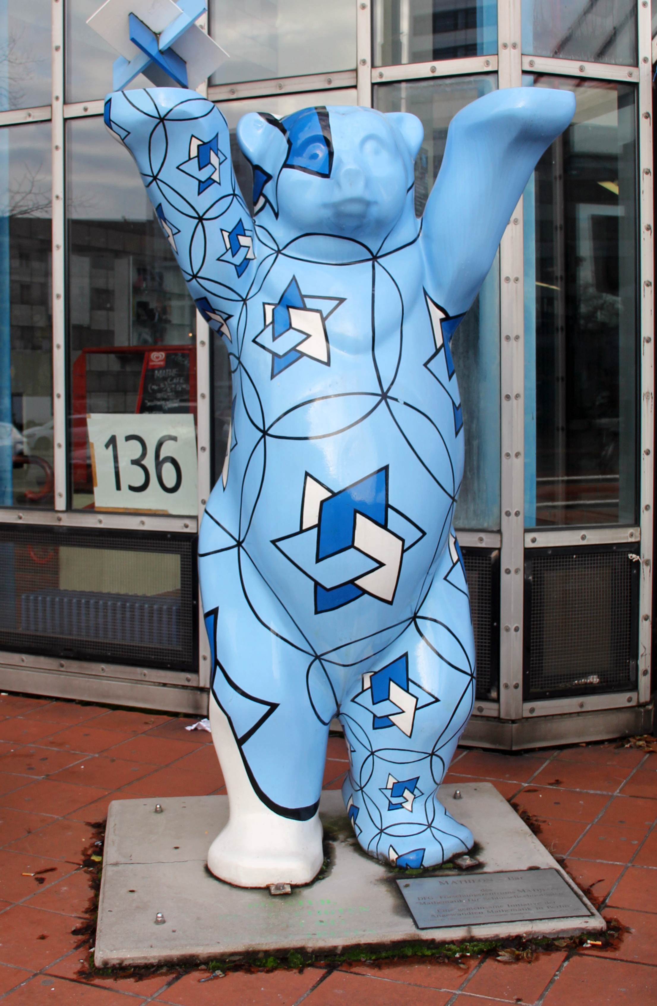 Matheon Bär, Straße des 17. Juni 136, Berlin-Charlottenburg, Deutschland